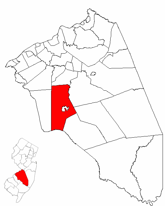 Map of Burlington County highlighting Medford Township